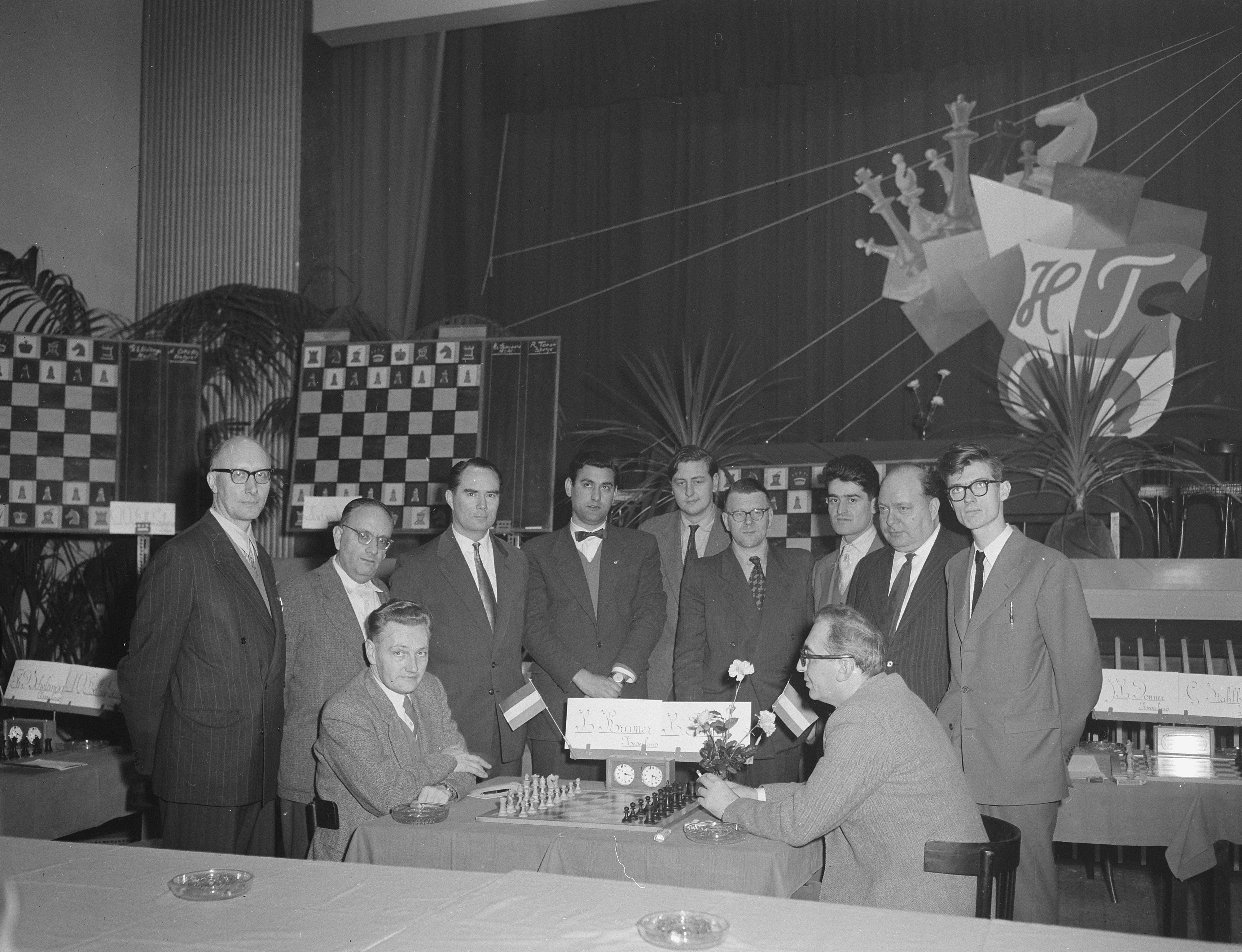 Hoogovens Tournament 1957. Standing, left to right: Theo van Scheltinga, Eduard Spanjaard, Alberic O`Kelly de Galway, Roman Toran Albero, J.H. Donner, (unidentified player), Aleksandar Matanovic, Gideon Stahlberg, (unidentified player, probably Johan Bink. Sitting, left to right: Haije Kramer, Herman Pilnik.